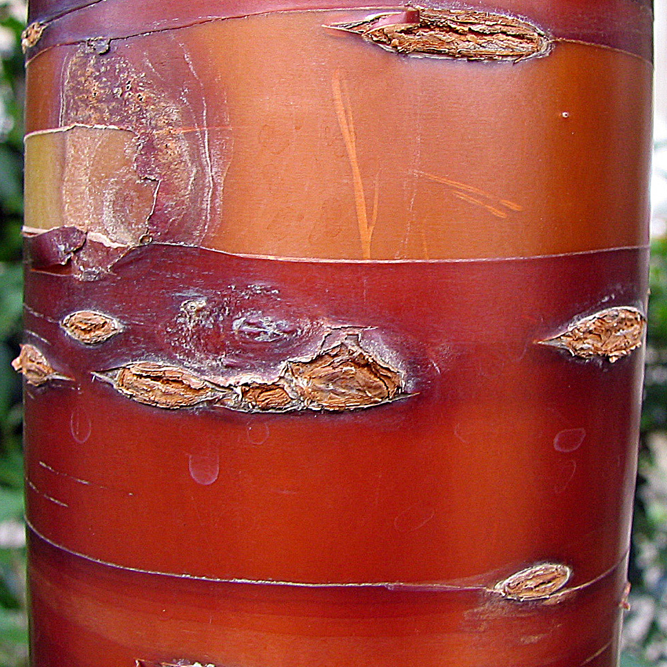 Lenticels of Prunus serrula tree